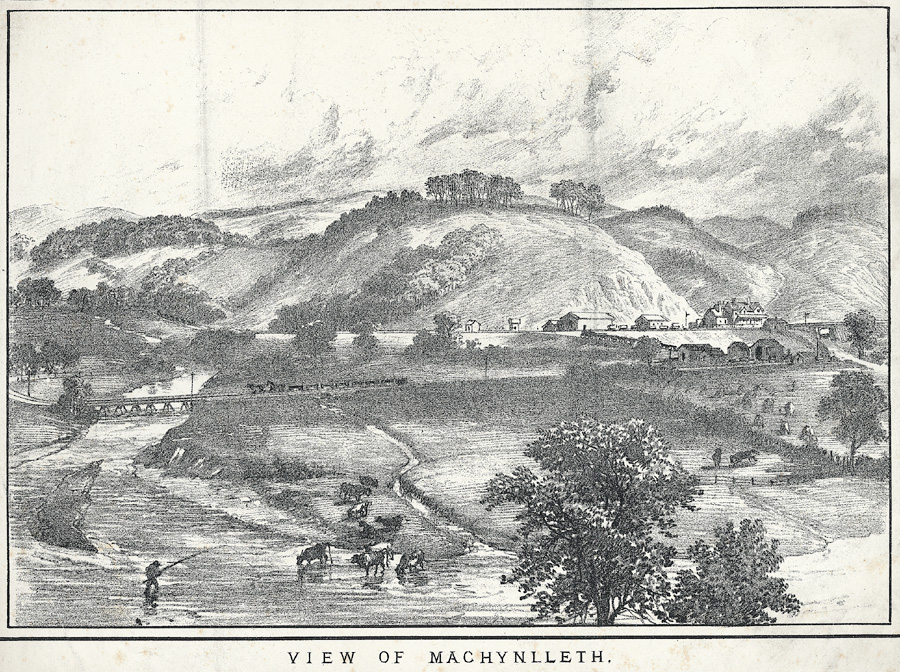 A view of Machynlleth from the north showing an angler and cattle in the River Dyfi in the foreground, and the stations of the Corris Railway and Cambrian Railways in the distance. A train drawn by horses can be seen about to cross the bridge over the Dovey.